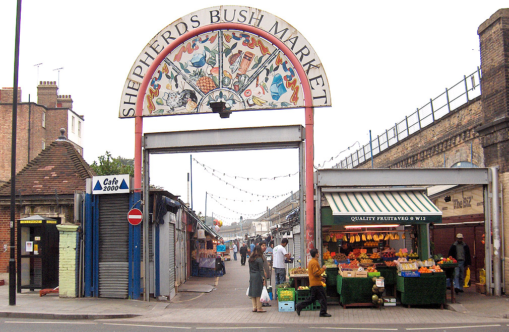 Shepherd's Bush Market - Uxbridge Road end, early morning as stall owners open up. (September 2006)